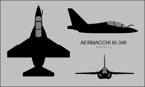 3-view silhouettes of the Aermacchi M-346